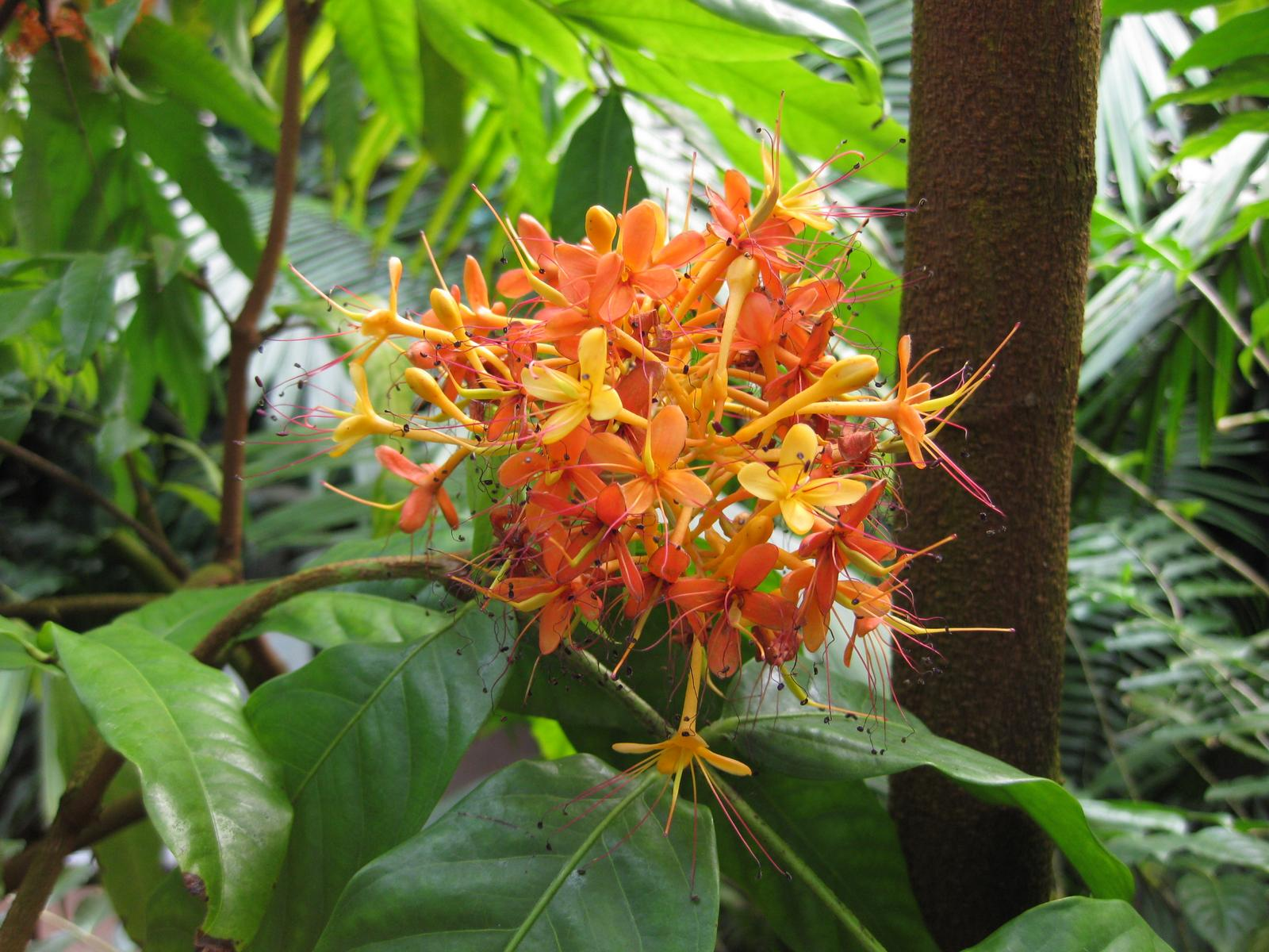 Photographed at Huntington Gardens (Los Angeles) in March